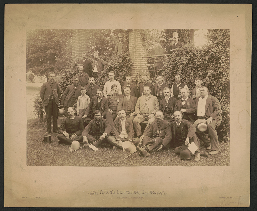 John M. Vanderslice, in bowtie to the left of the boy (his son), was photographed at a reunion of his former Civil War regiment, the 8th Pennsylvania Cavalry, at Gettysburg, Pennsyvania, c. 1885 (public domain photo courtesy of the U.S. Library of Congress). A native of Philadelphia, Vanderslice won the U.S. Medal of Honor for being the first man to reach the rifle pits of the Confederate States Army during the Battle of Hatcher's Run, Virginia on February 6, 1865.